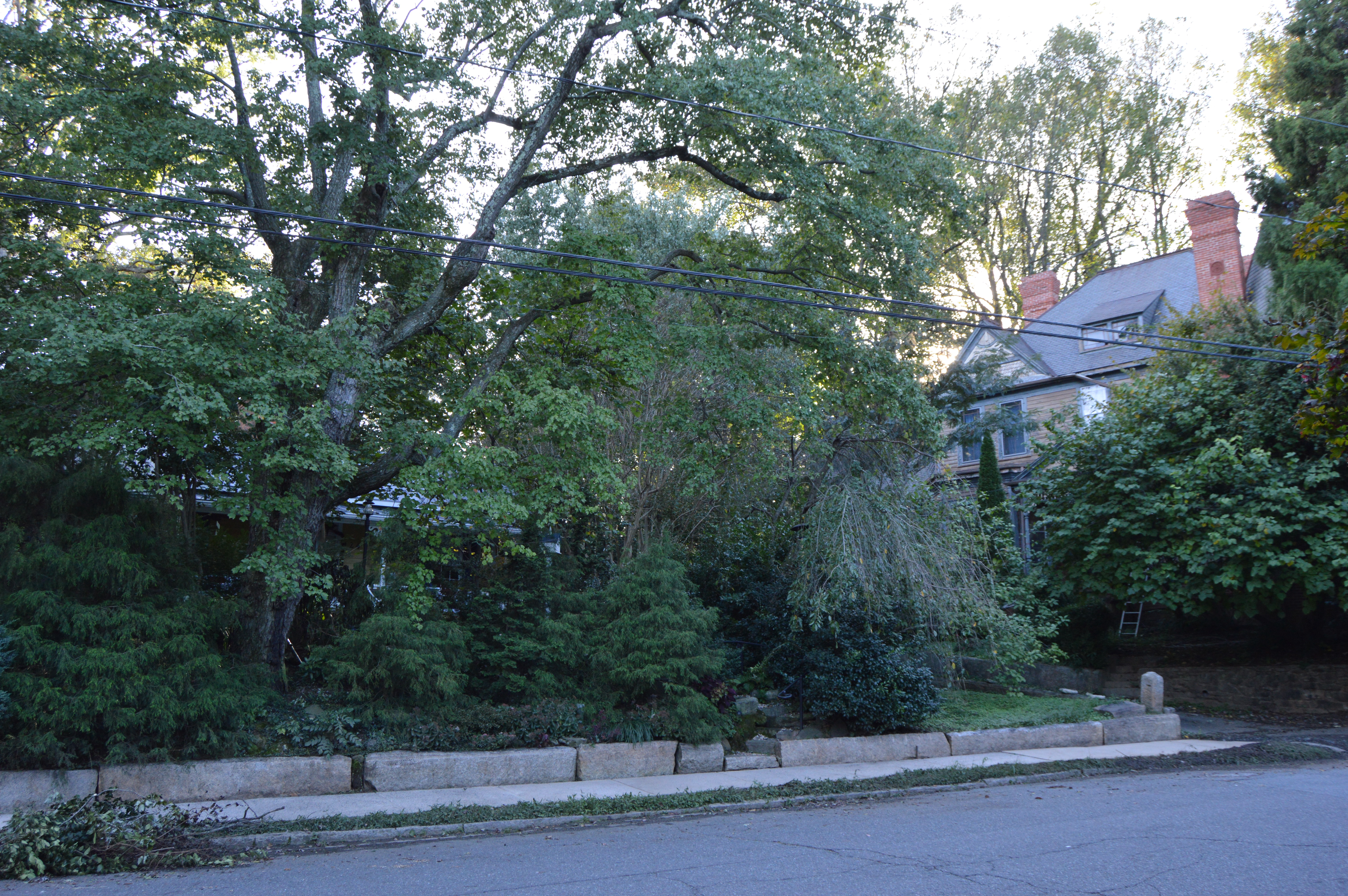 Street view of the H.D. Poindexter Houses, located at 124-130 West End Boulevard in Winston-Salem, North Carolina, United States. They are is listed on the National Register of Historic Places.